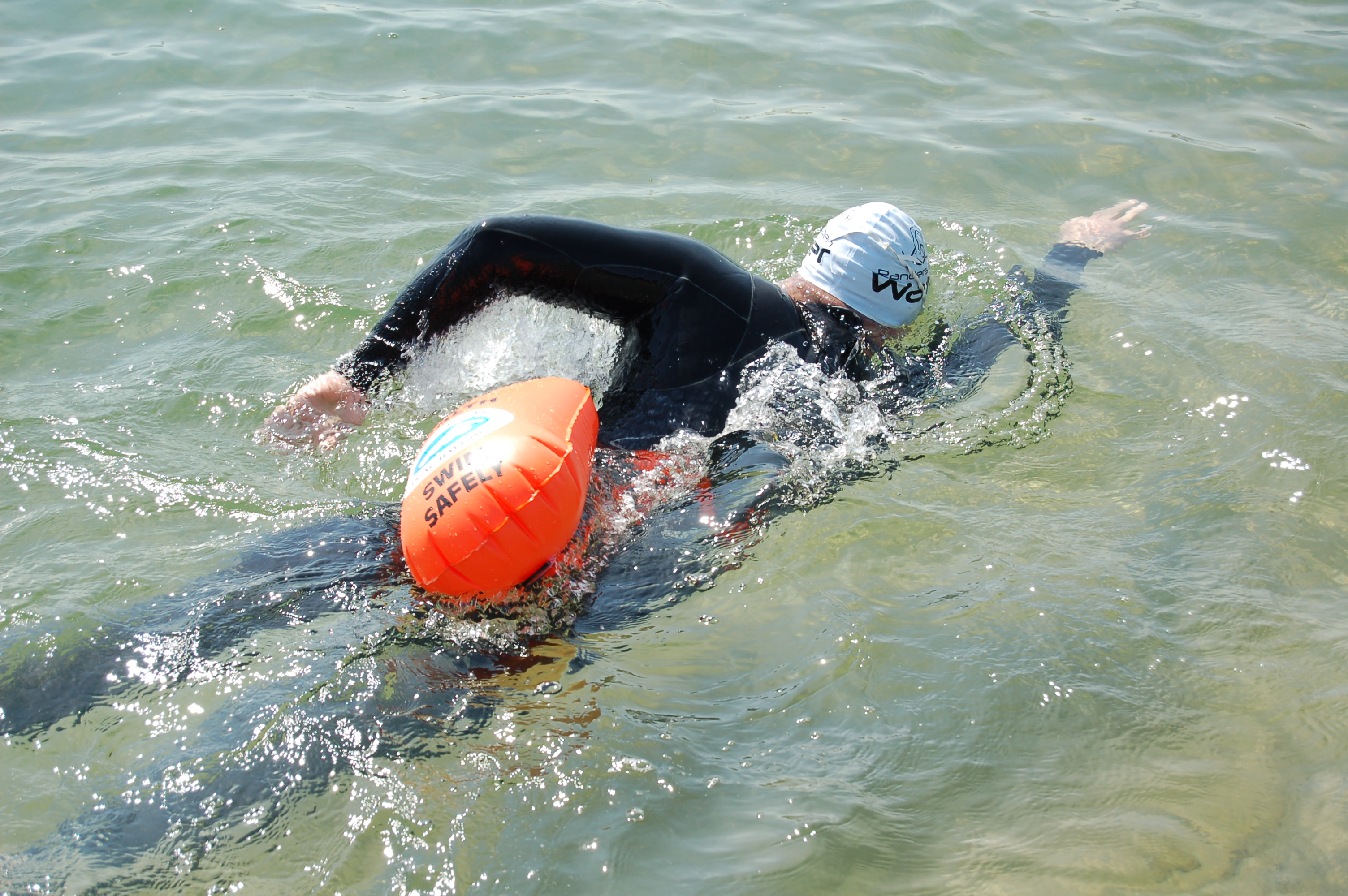 Swim safety device for open water swimming